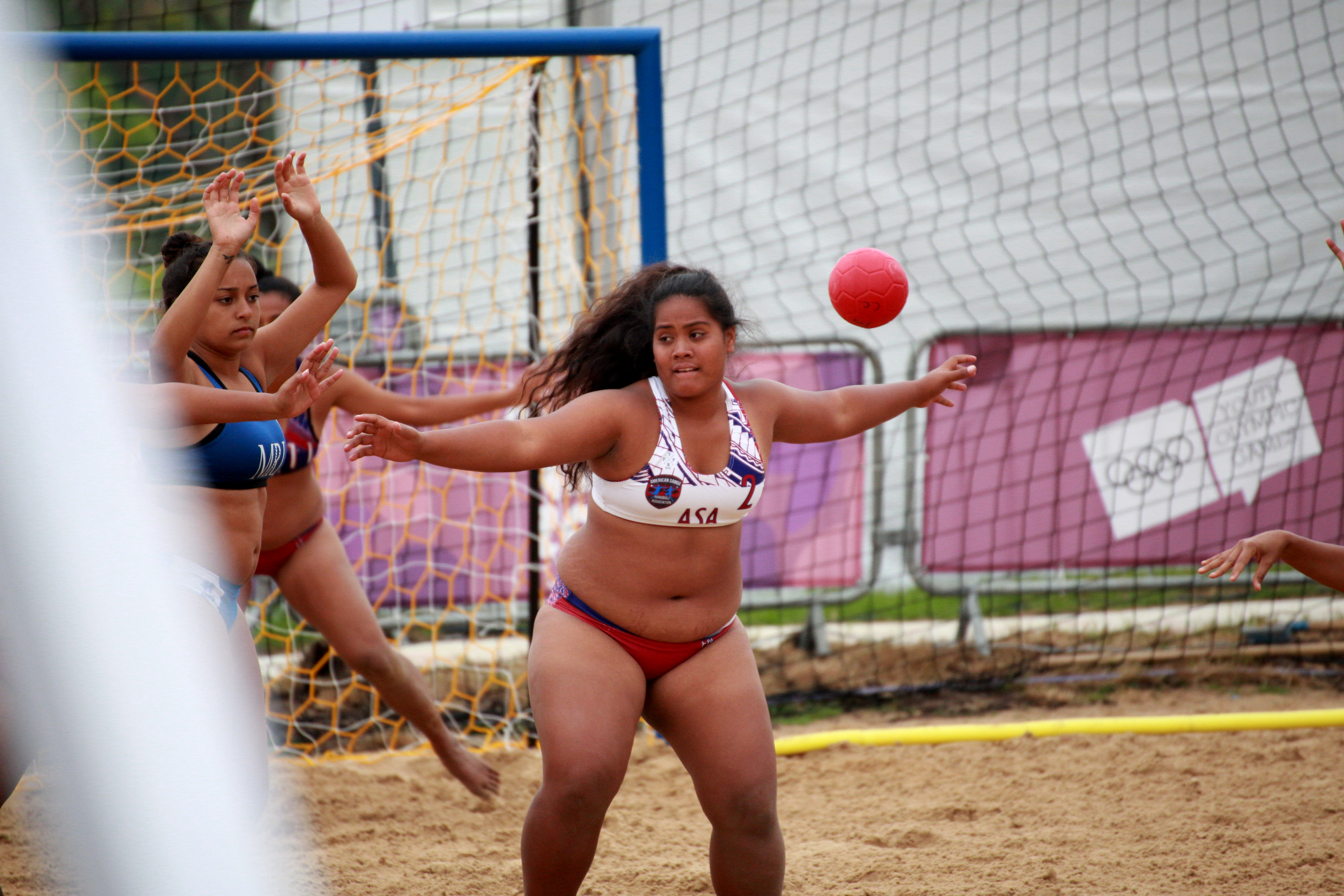 Beach handball at the 2018 Summer Youth Olympics at 12 October 2018 – Girls Placement Match 11-12 – American Samoa-Mauritius 2:1